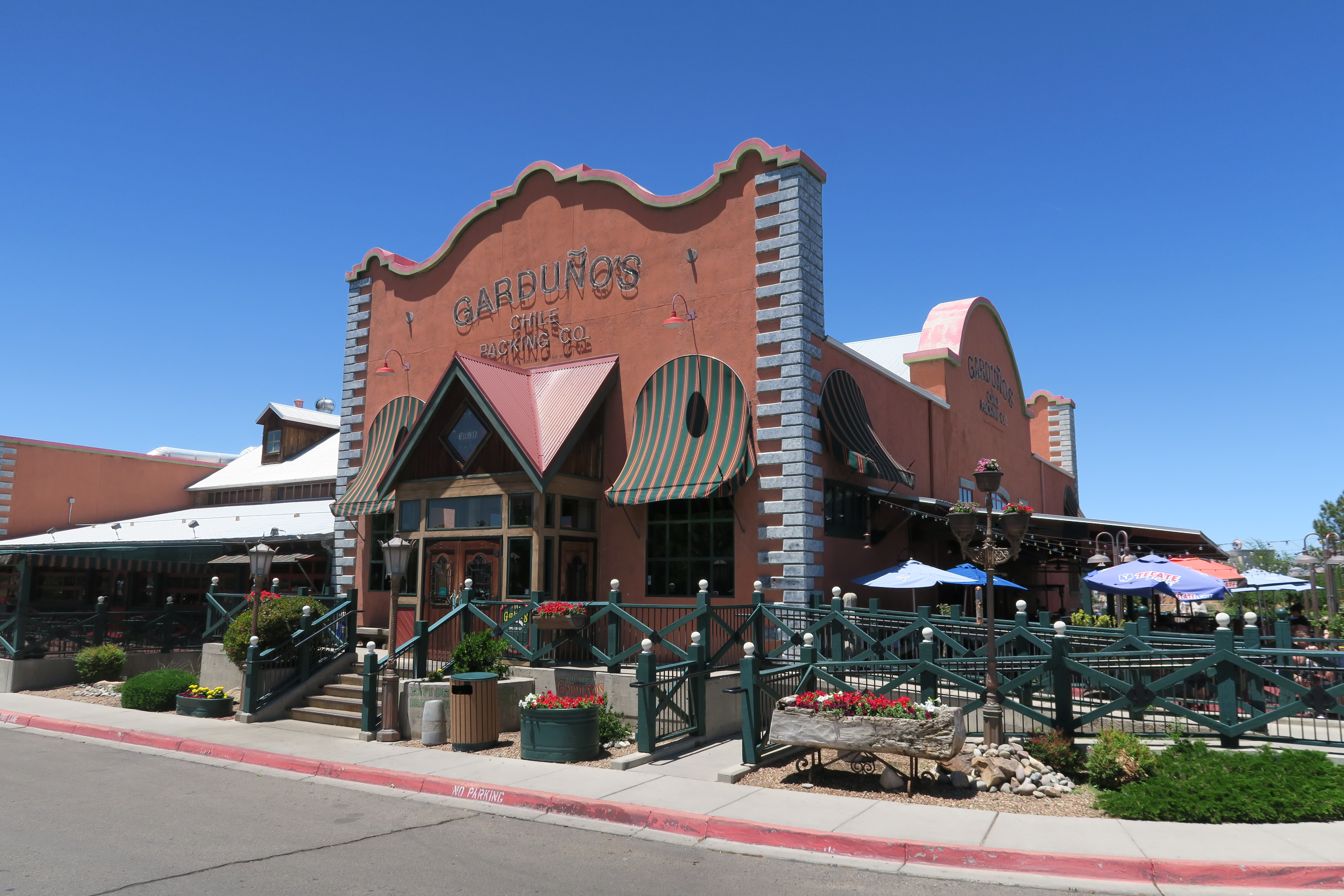 Gardunos, Albuquerque New Mexico